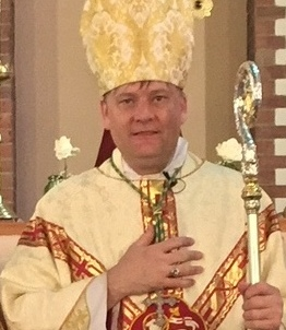 Jonathan Baker, Bishop of Fulham, after celebrating mass in west London.